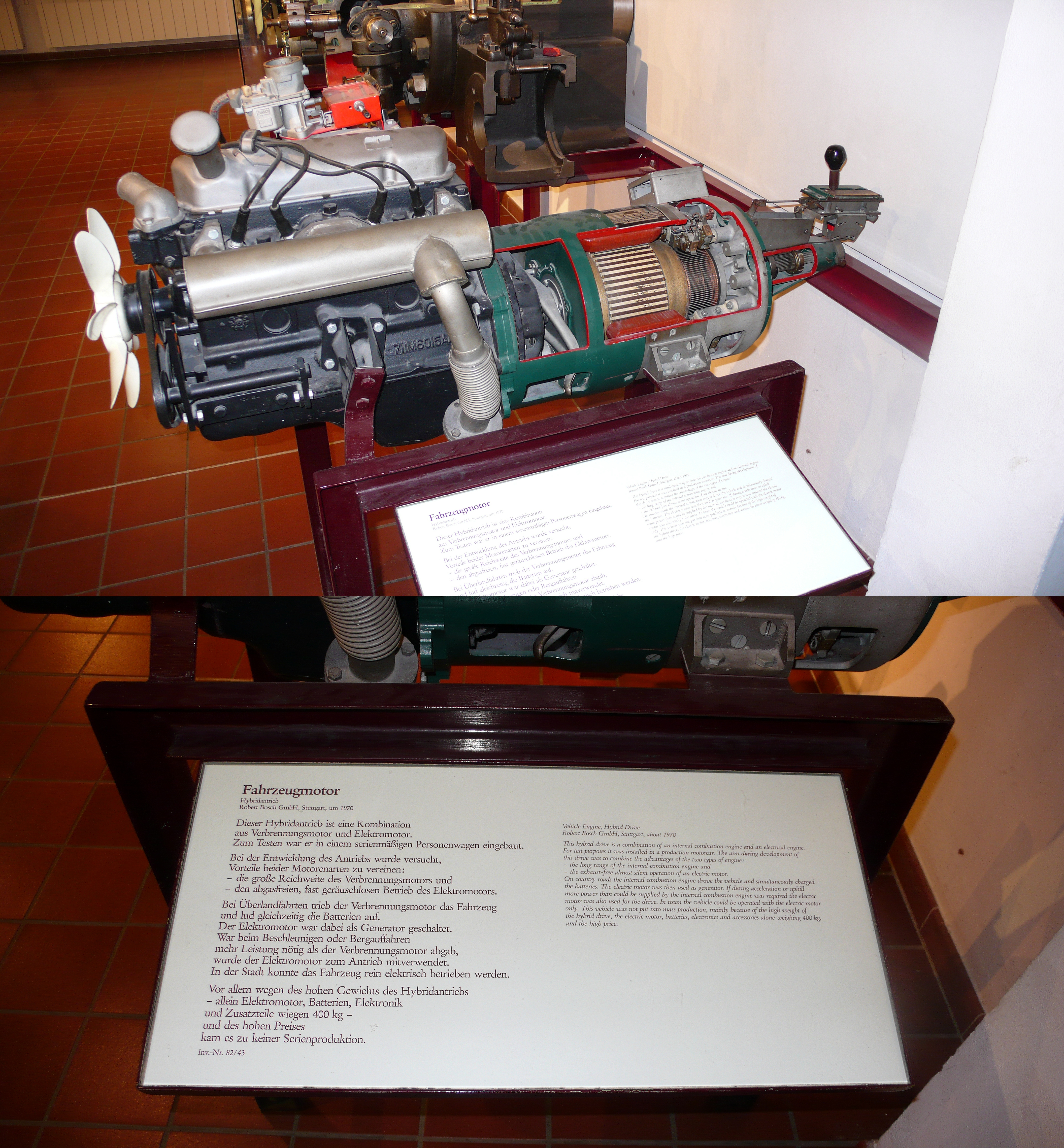 Hybrid Drive Robert Bosch GmbH Stuttgart 1970